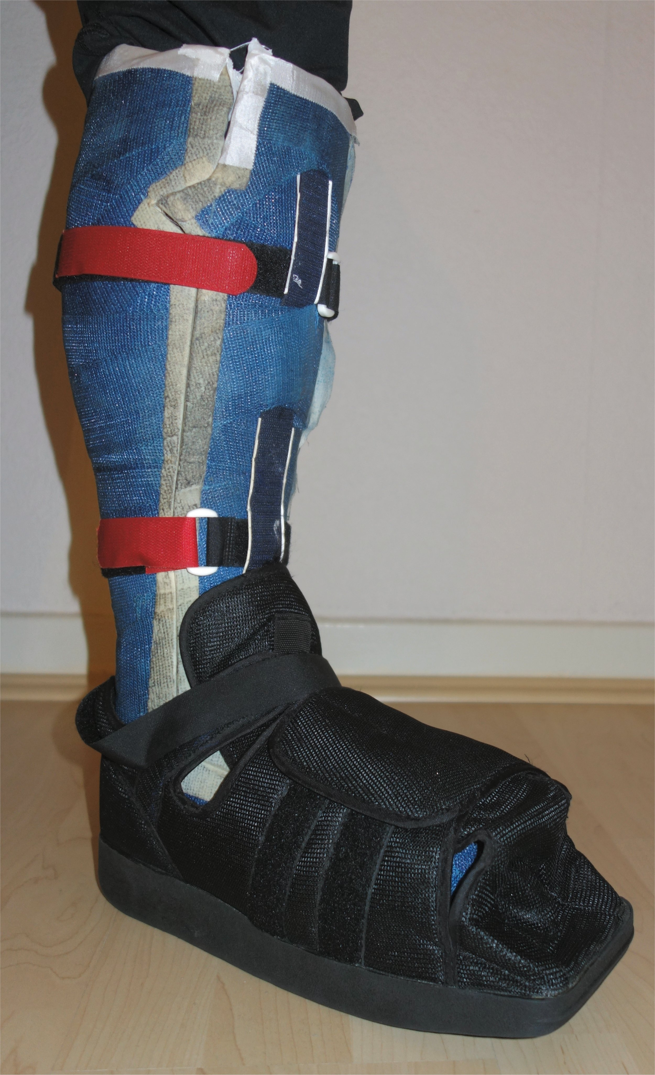 total contact cast